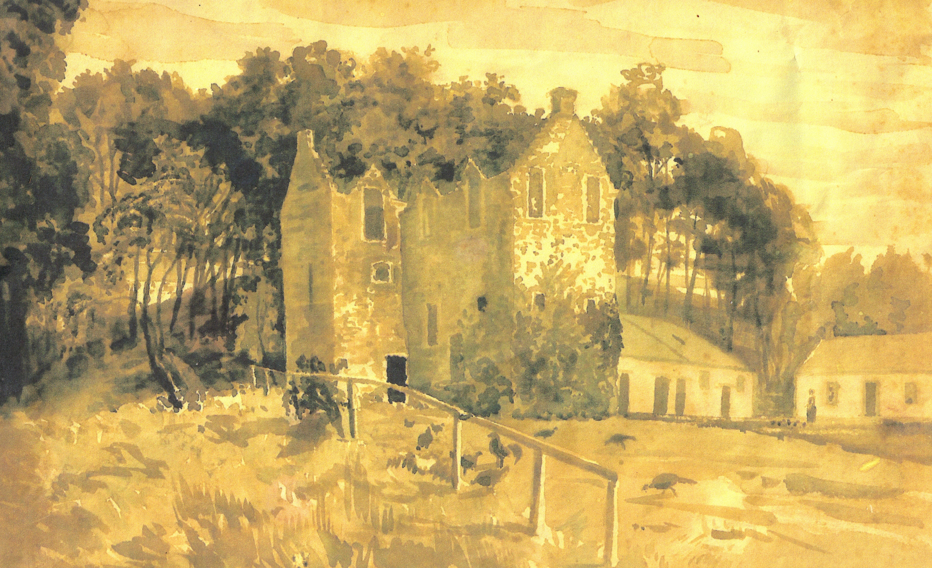 A view of the ruins of Monkcastle and Monkcastle Mains Farm. dalry, North Ayrshire, Scotland.